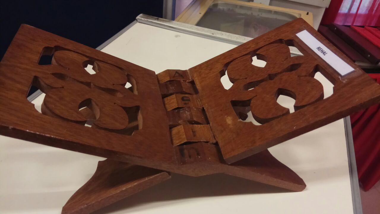 Rehal